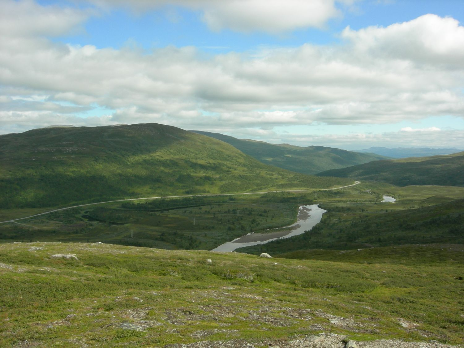 Vildmarksvägen road between Stekenjokk and Klimpfjäll with Saxån River, Vilhelmina kommun, Västerbotten, Sweden.